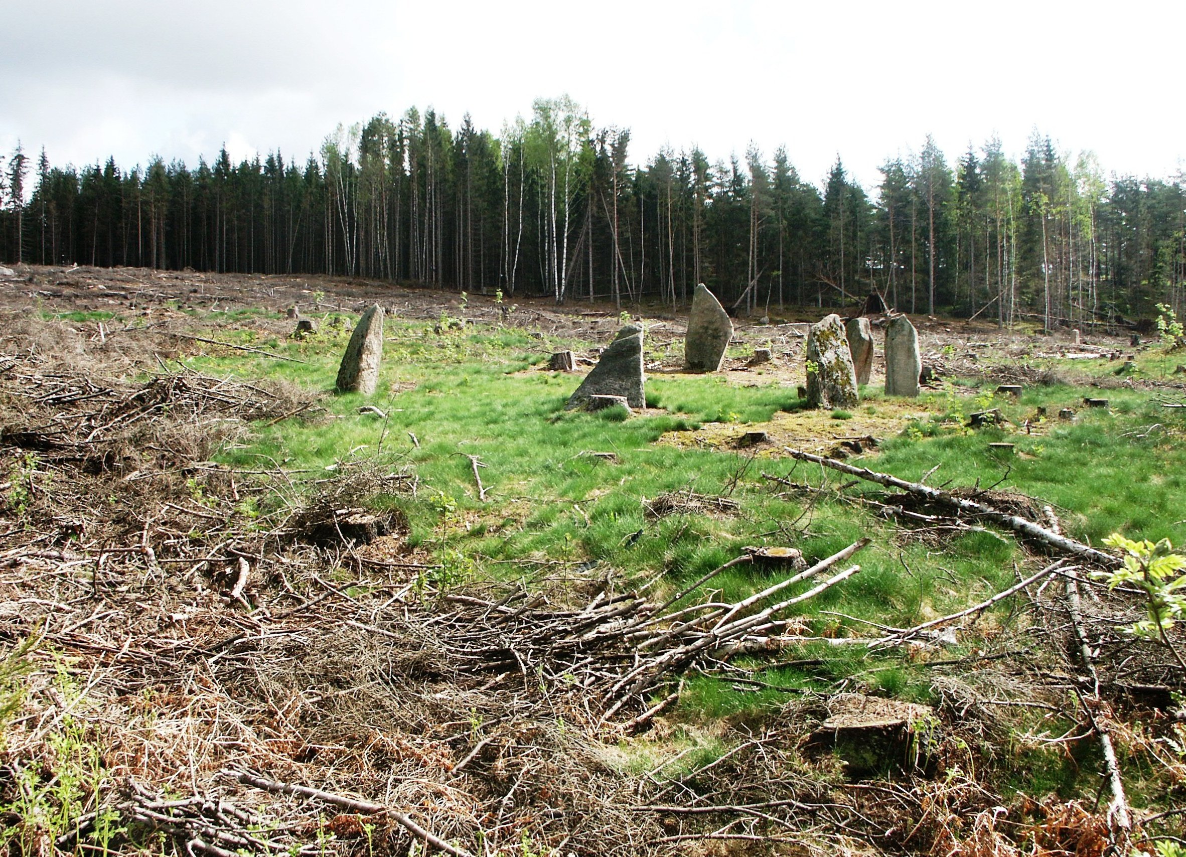 Standing stones at grave mound site Opstad, Sarpsborg